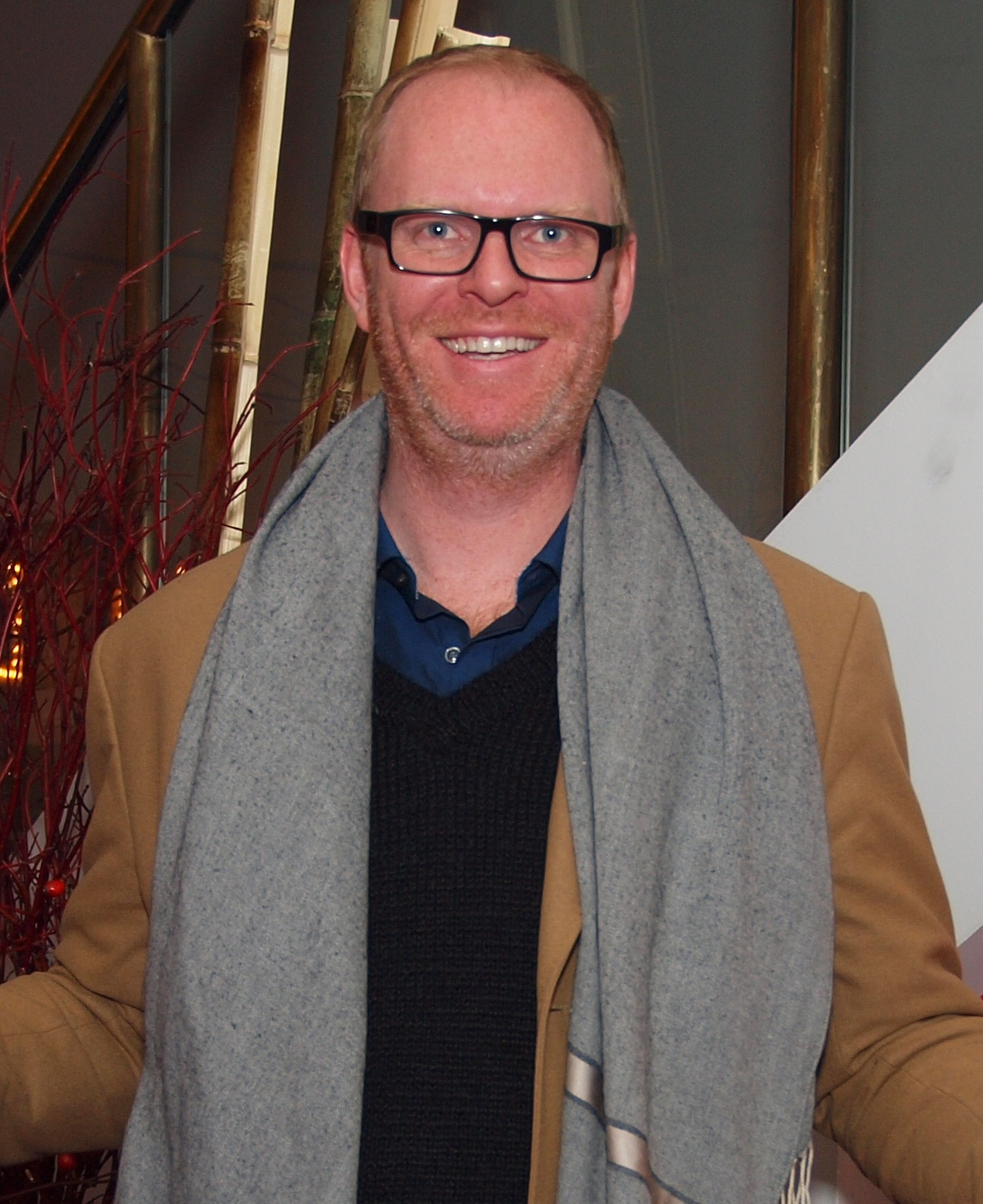 Stefan Brogren at the 2010 Gemini Awards